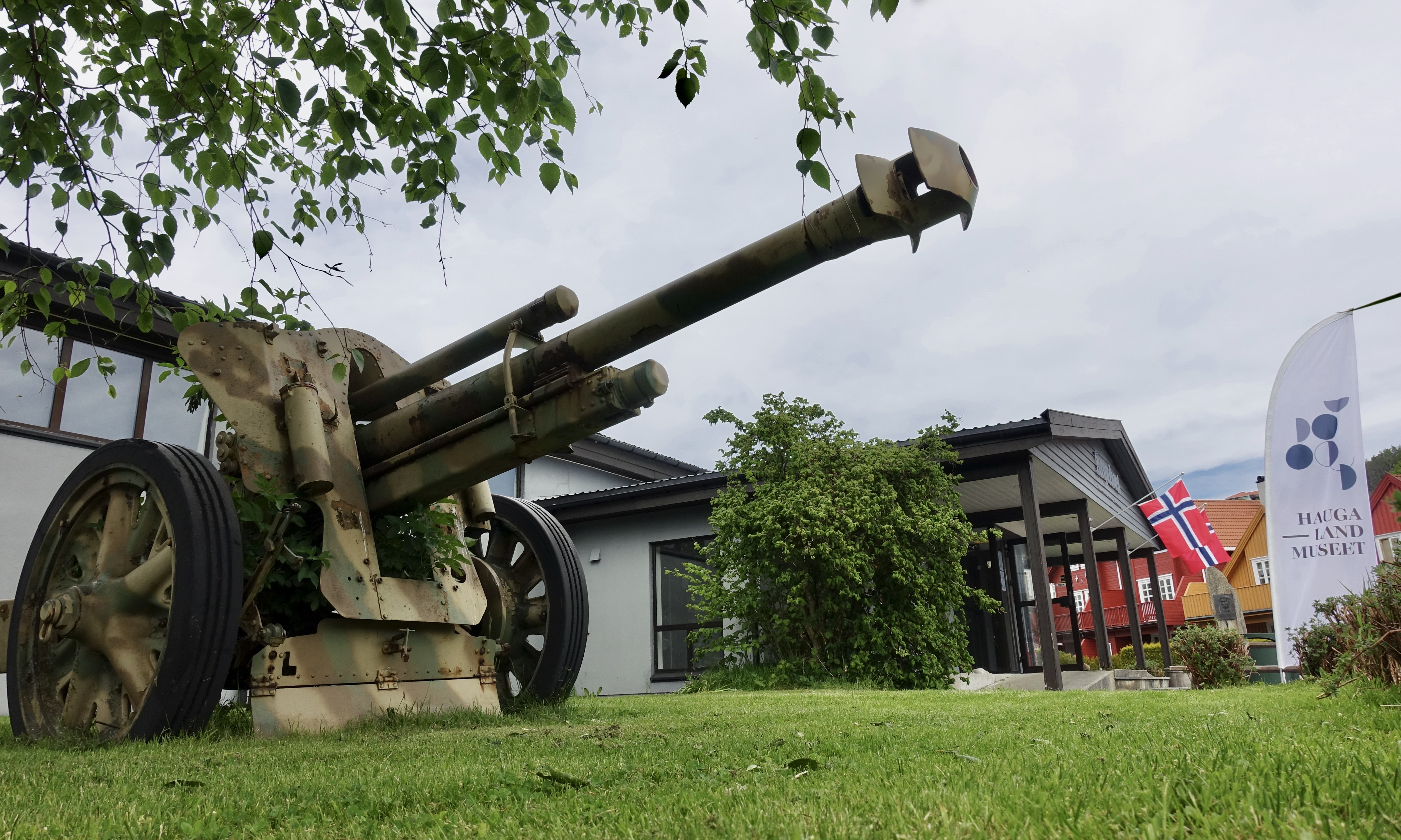 A 10.5 cm leFH 18/40, a German light howitzer, outside the Arquebus War History Museum (Norwegian: Arquebus krigshistorisk museum) in Tysvær, a regional museum focusing on the German occupation of Norway during the Second World War. Photo taken on June 2nd, 2020.